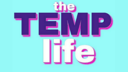 This is the title card for the web series The Temp Life (2006-2011)